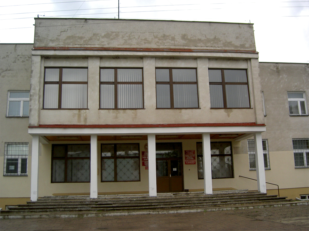 Commune Council in Ulhówek, Poland